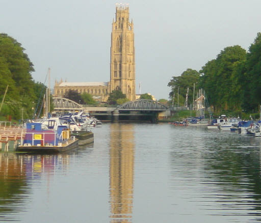 "Boston Stump" The tower of St Botolph's Church, Boston, is visible for many miles over the flat scenery of Lincolnshire and is known as "Boston Stump". Looking south east from the visitor moorings on the River Witham.